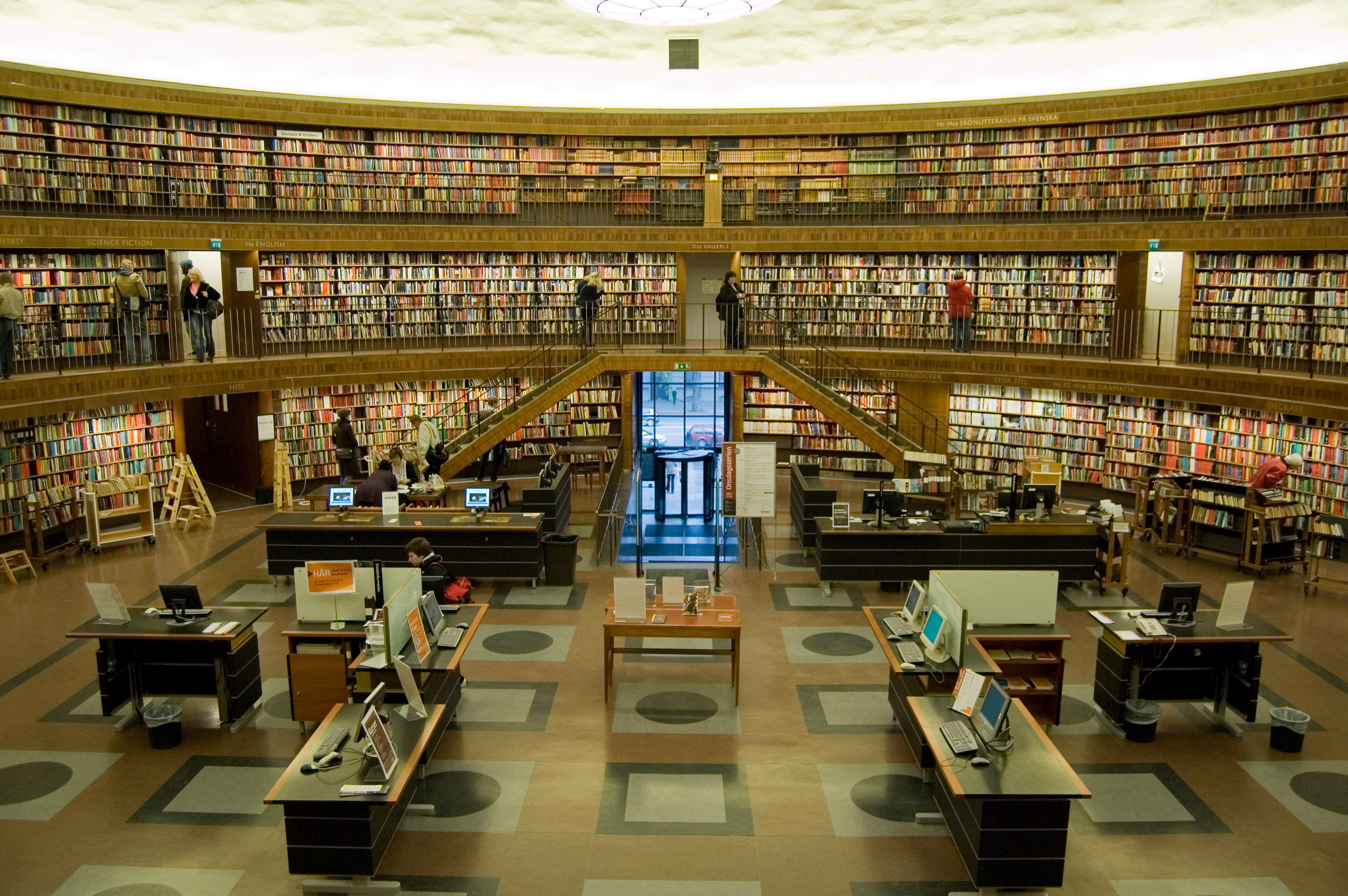 Stockholm city library interior.